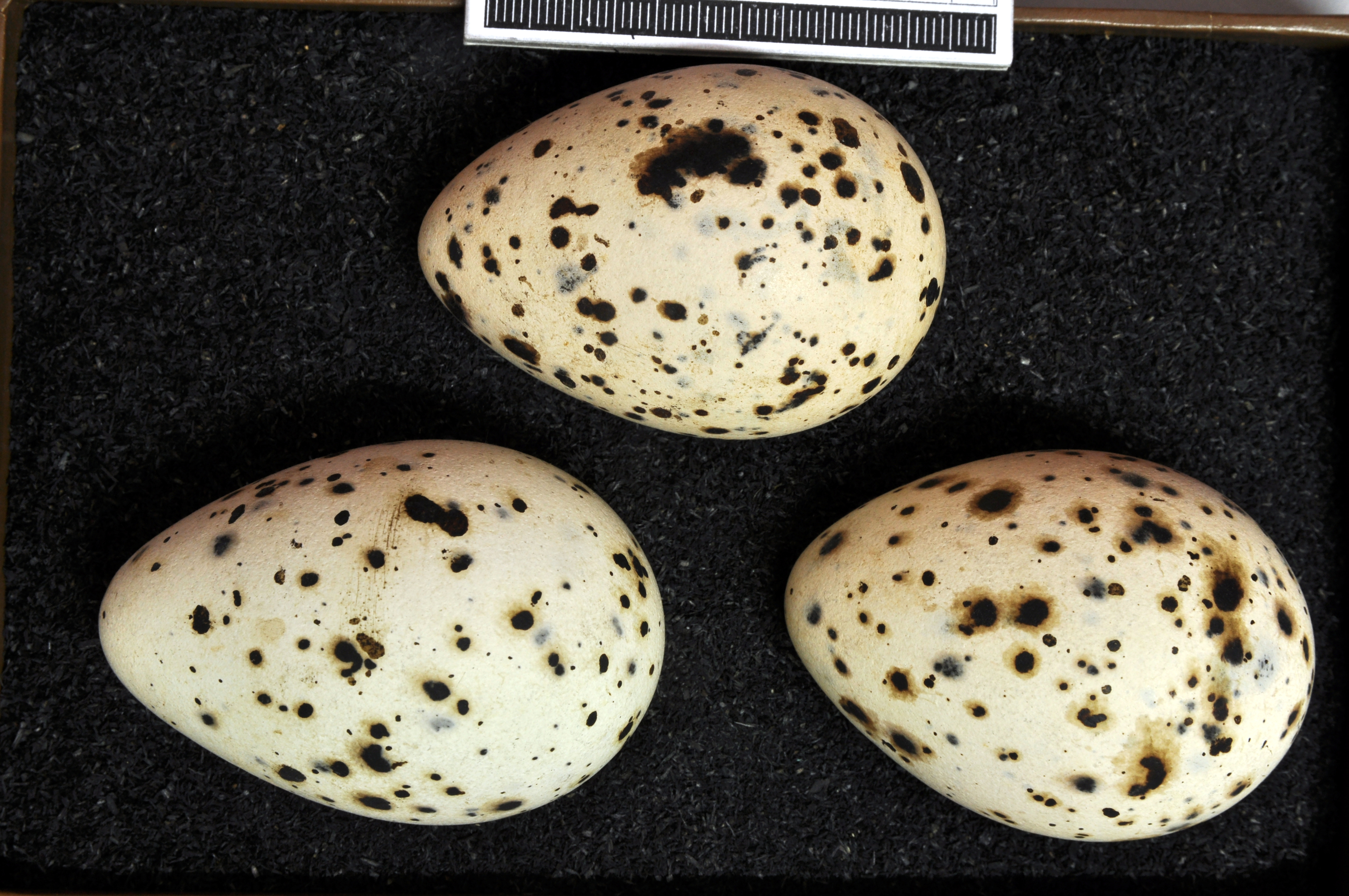 Royal tern Thalasseus maximus , egg, Coll. Museum Wiesbaden